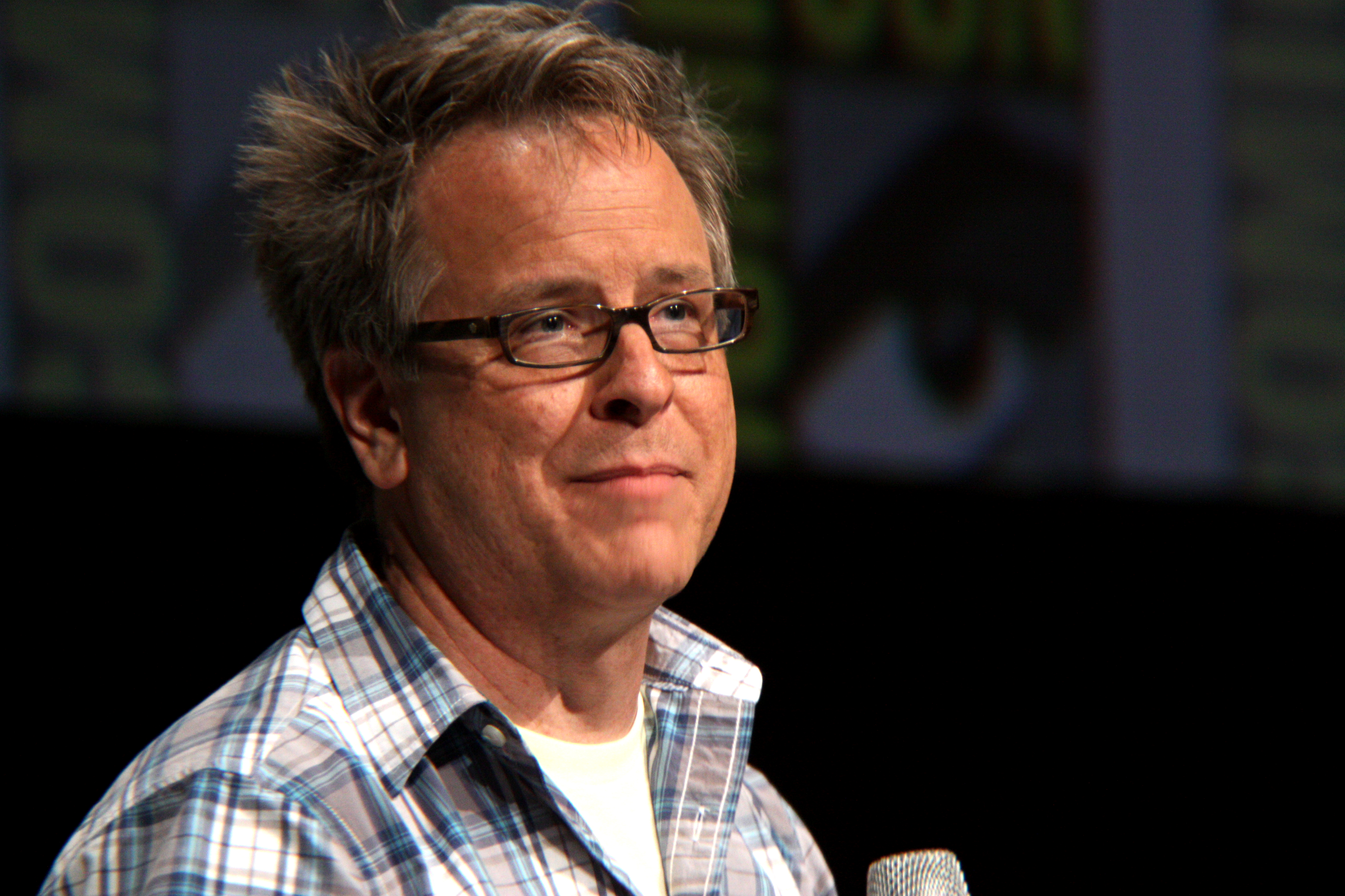 Rich Moore speaking at the 2012 San Diego Comic-Con International in San Diego, California.